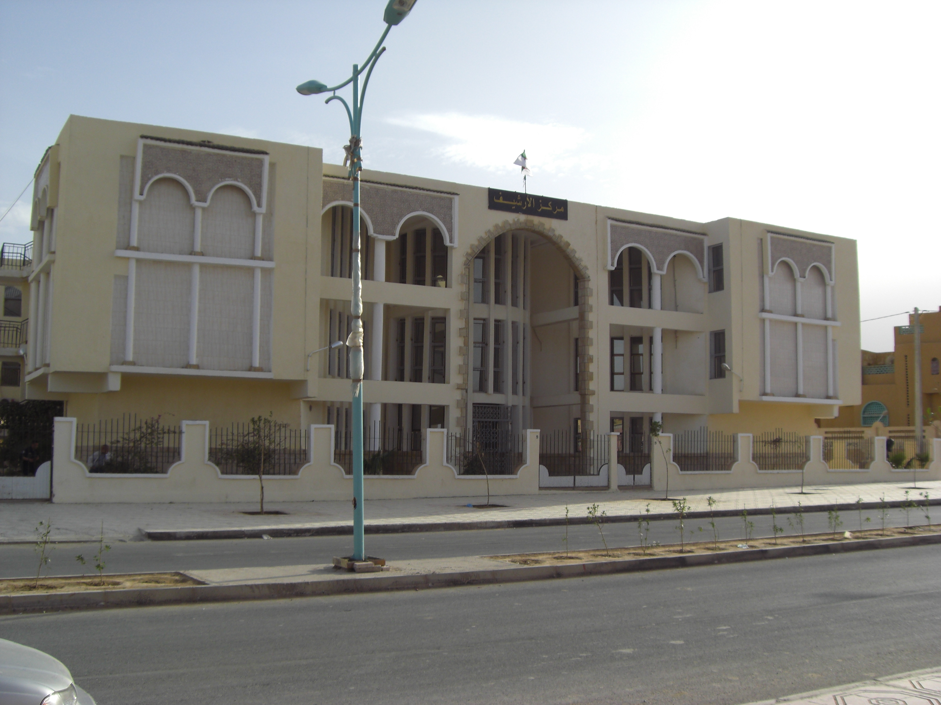 Archive Center in Biskra.